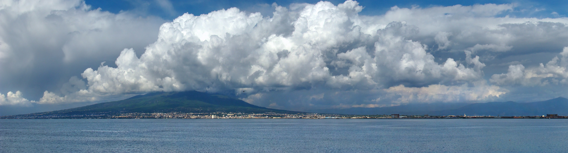 Gulf of Naples, Campania, Italy. View about 3km west of Castellammare di Stabia.